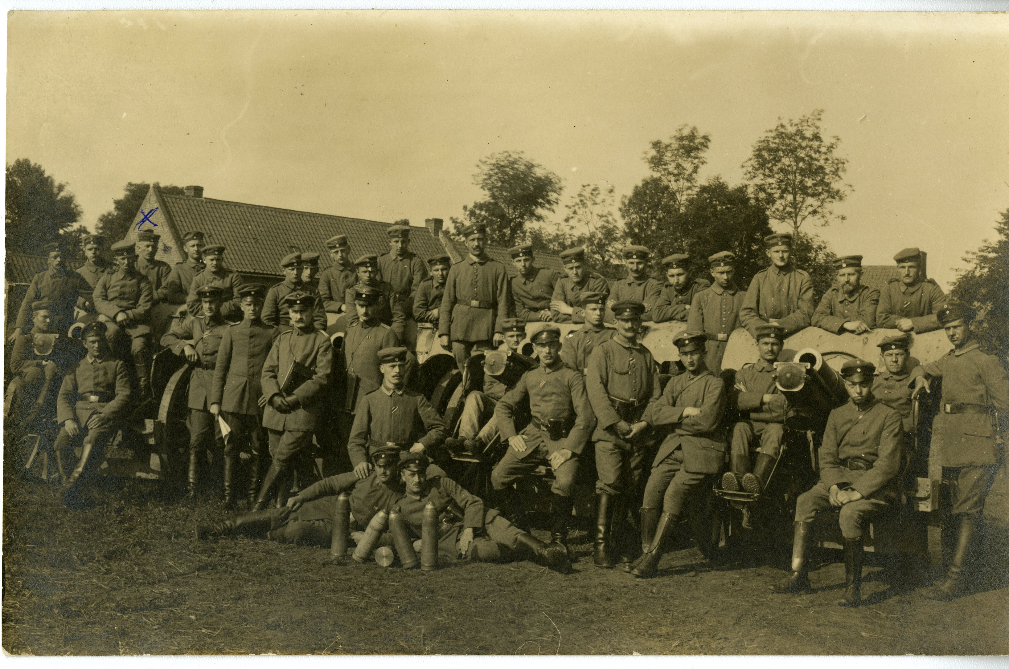 3rd Section, 10th Battery, 17th Reserve Artillery, 17th Reserve Division (Germany) C. 1916